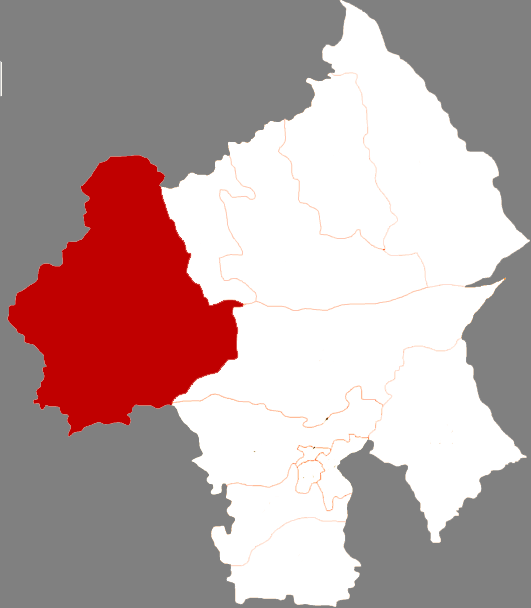 Location of Hexigten Banner in Chifeng City, China